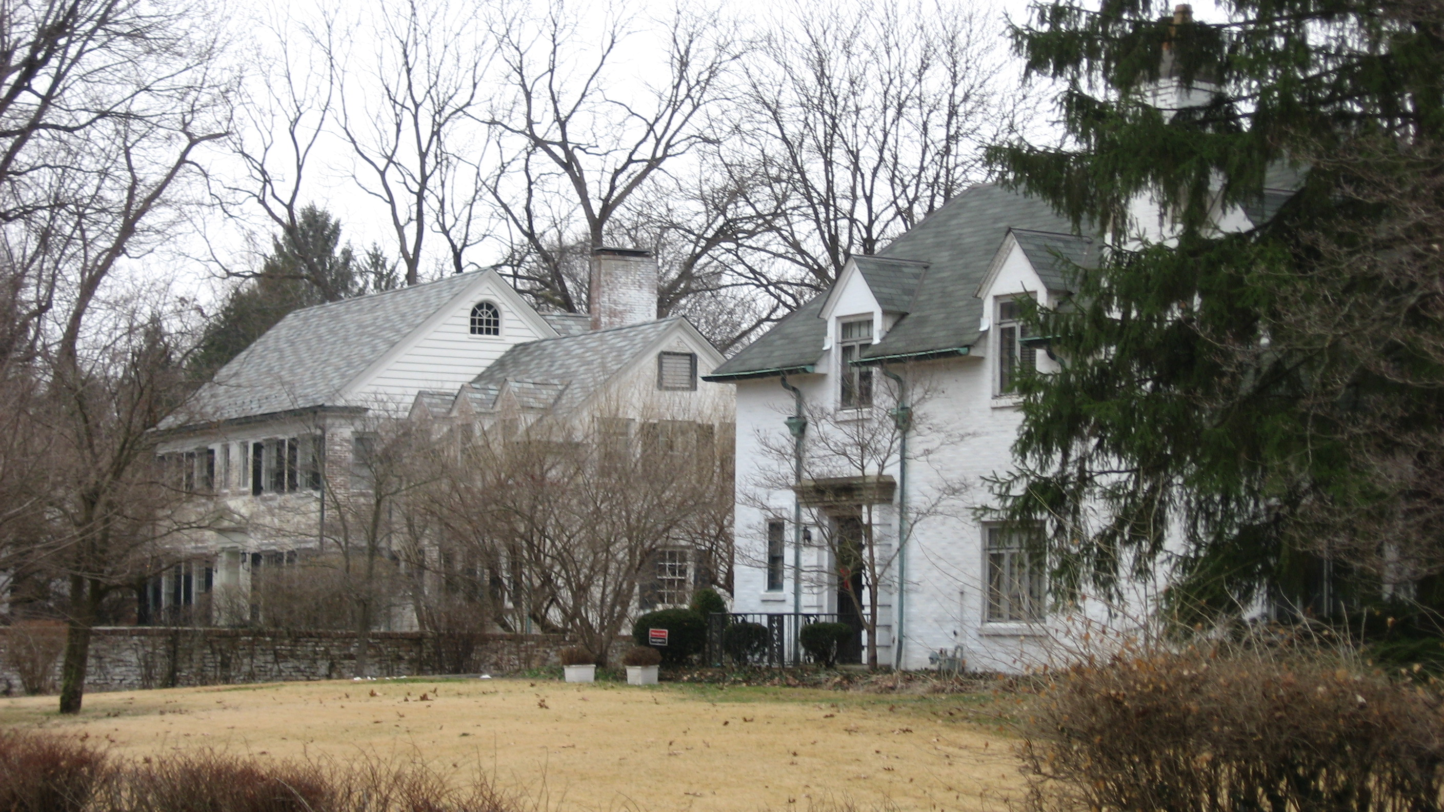 Houses at 1255 (right) and 1249 (left) Golden Hill Drive in Indianapolis, Indiana, United States. This block is part of the Golden Hill Historic District, a historic district that is listed on the National Register of Historic Places.